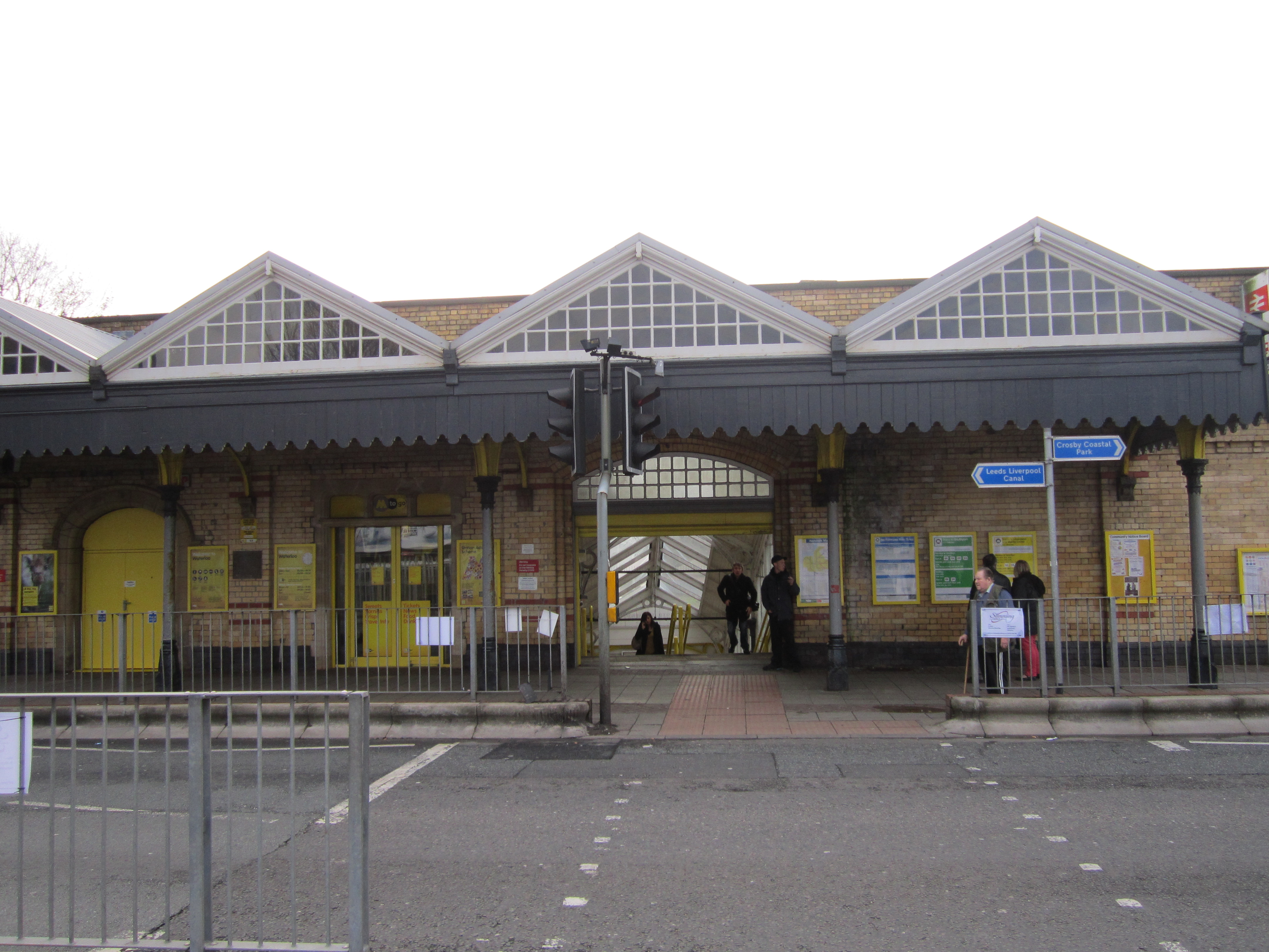 Entrance to Waterloo (Merseyside) railway station, South Road, Waterloo, Merseyside, England.